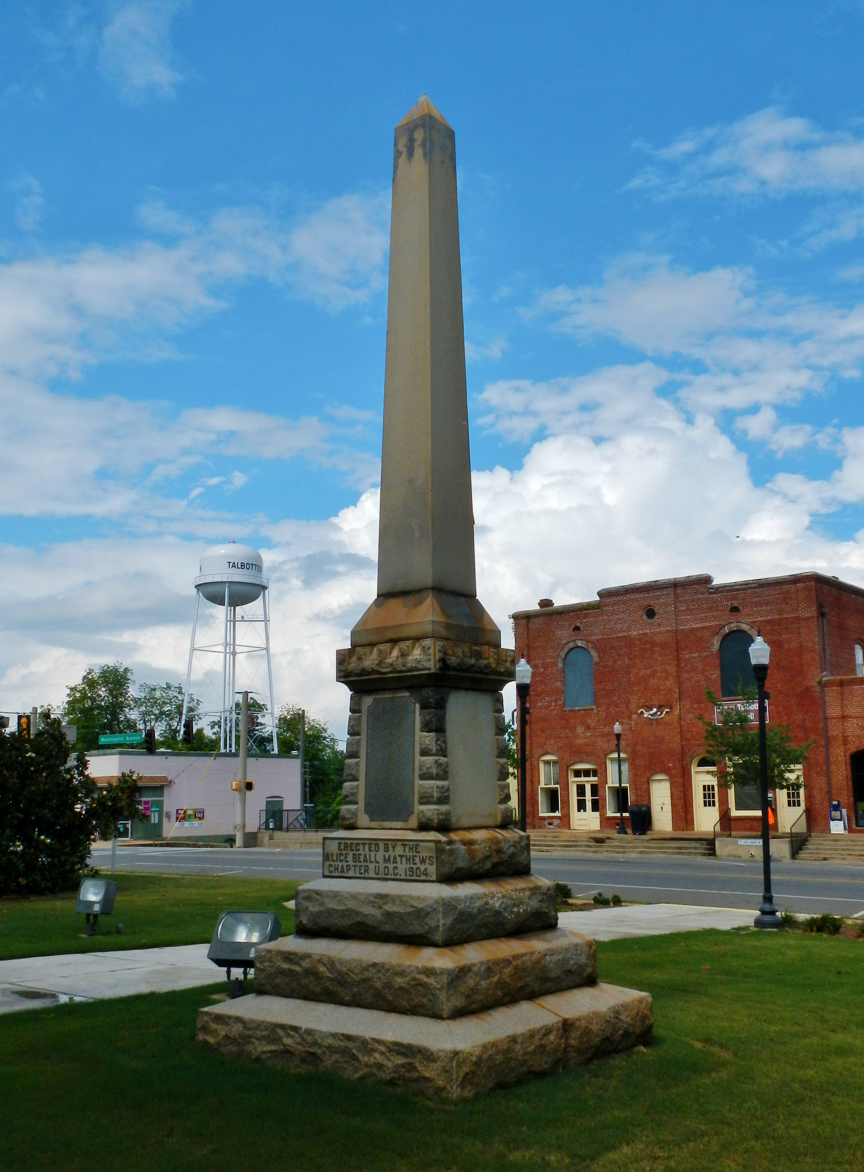 This is a photo of Talbotton, Georgia.